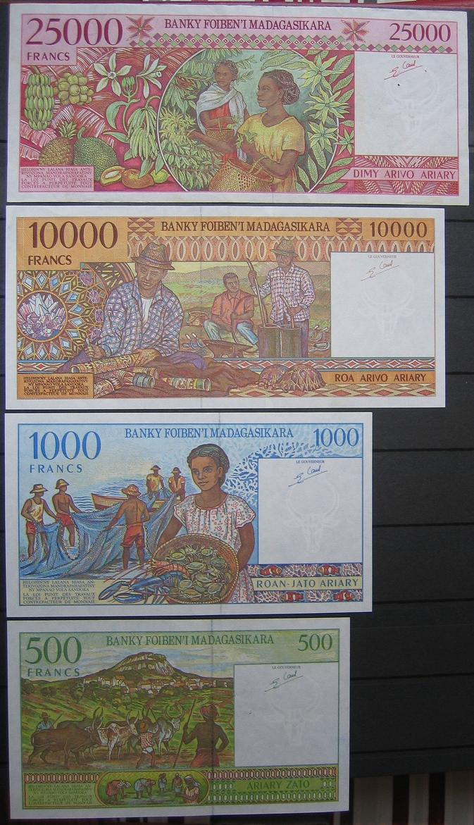 Malagasy francs